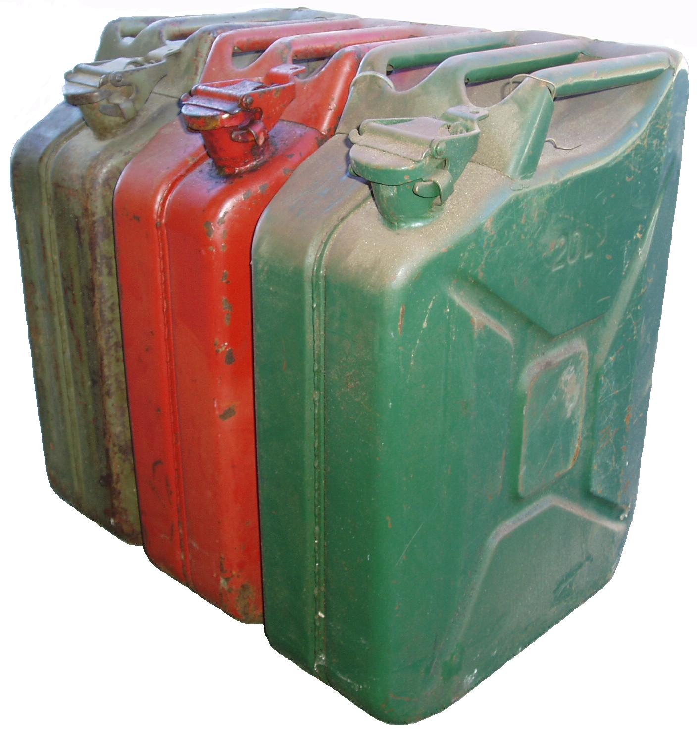 Three jerrycans. Photo by JohnM 15:24, 13 May 2006 (UTC)